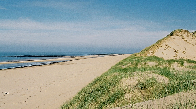 The Hassy The Hassy is the dark rock platform just beyond the beach.